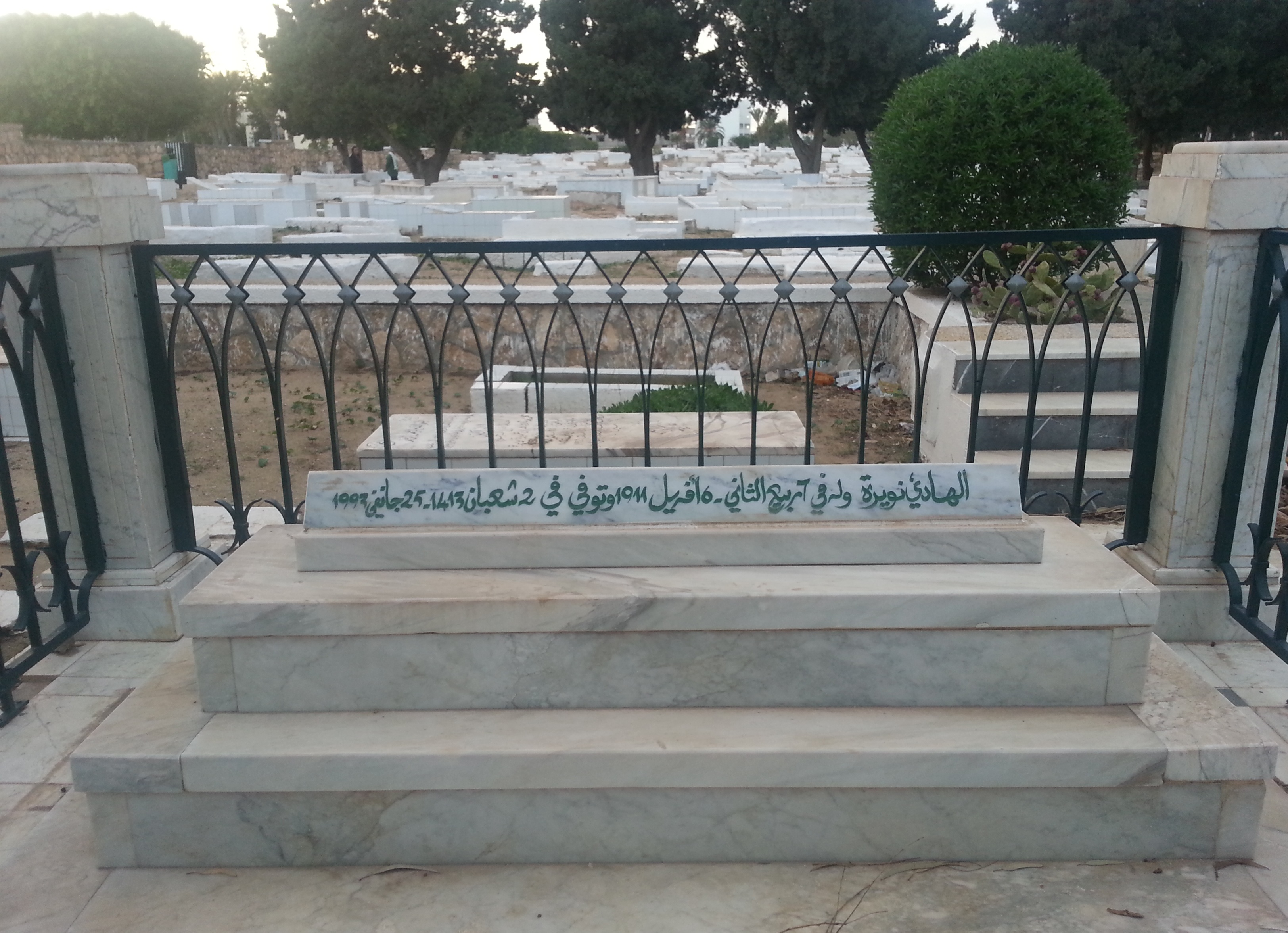 Hédi Nouira Tomb